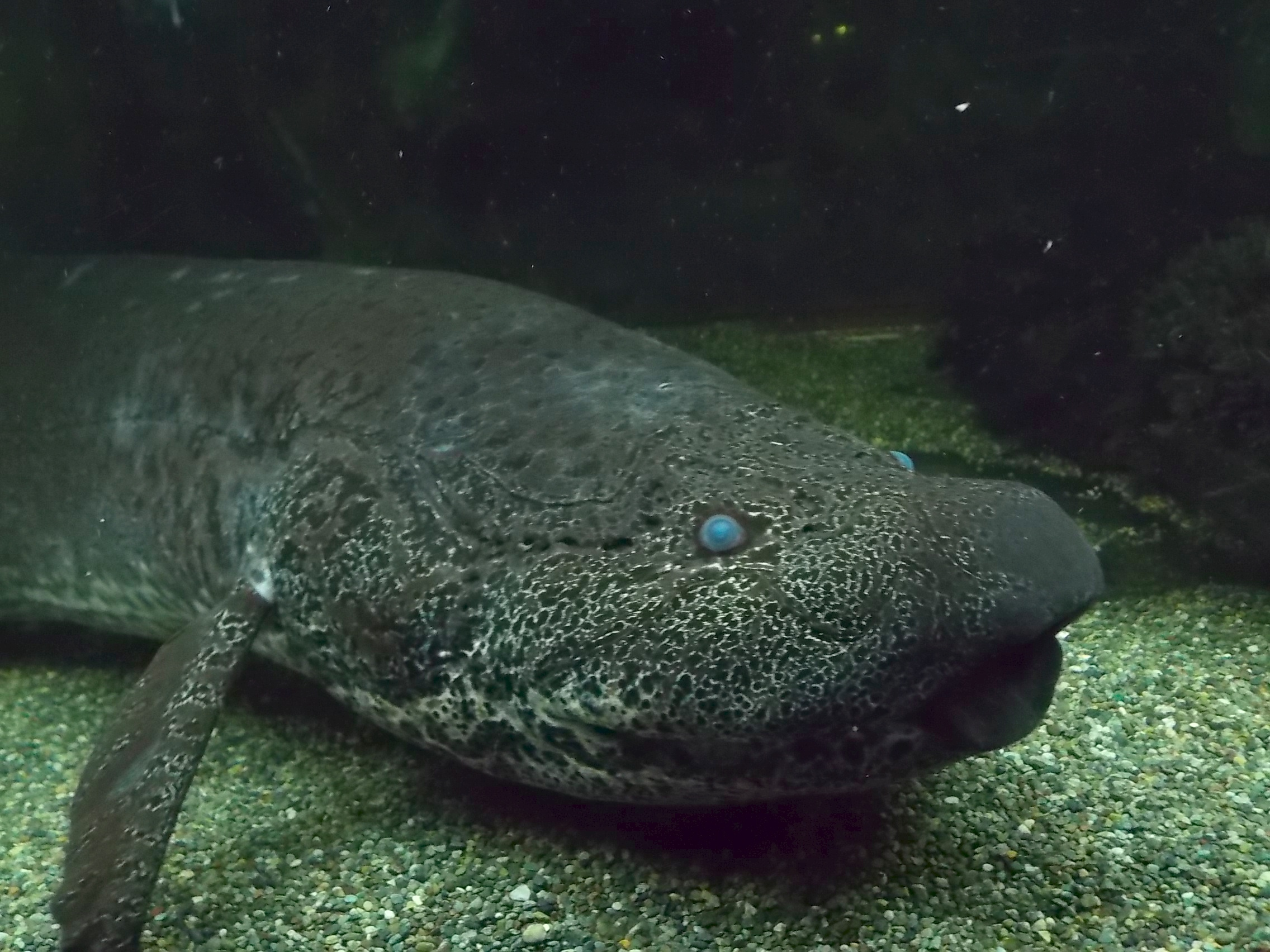 Closeup of Leopard lungfish (Protopterus aethiopicus) at the Tokyo Tower Aquarium in Japan.